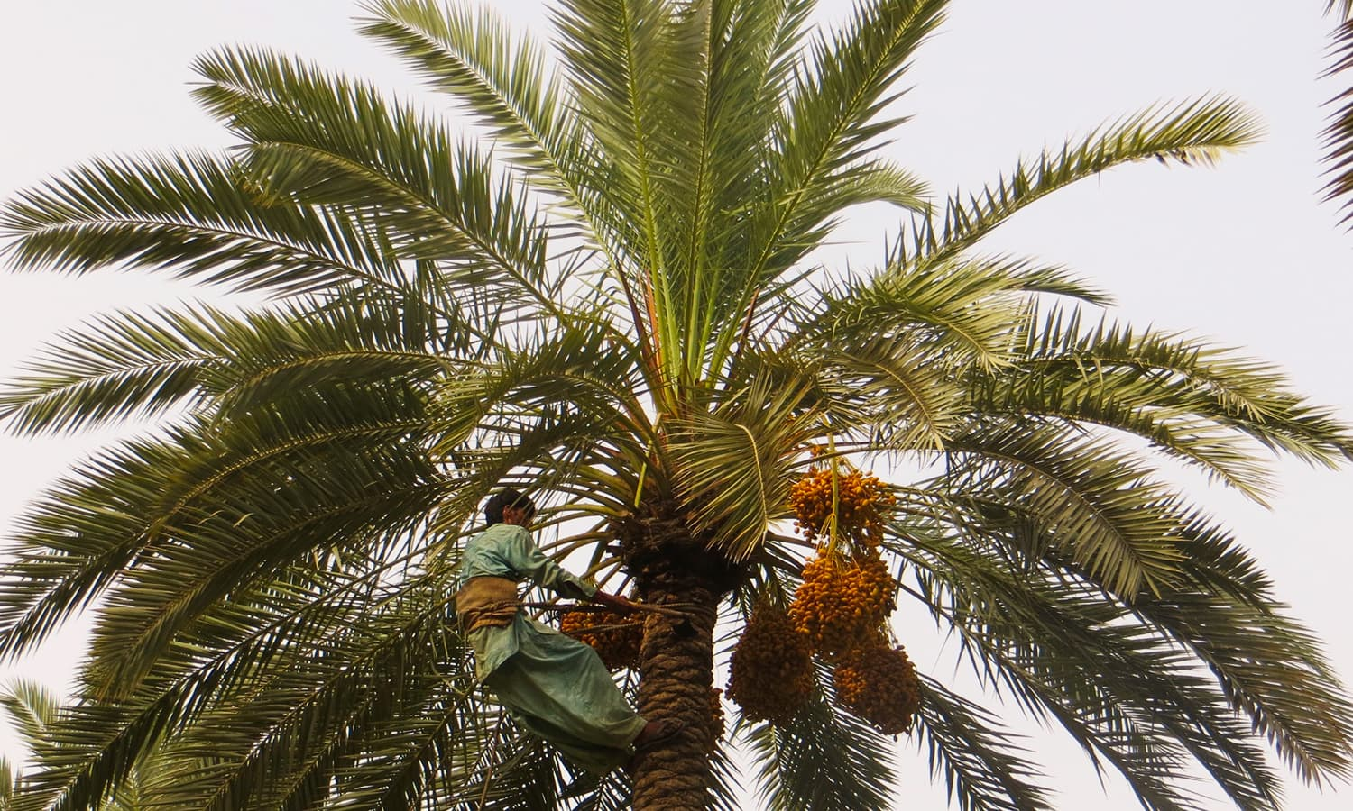 Panjgoor's Dates are popular in whole Baluchistan, Even in the whole Pakistan